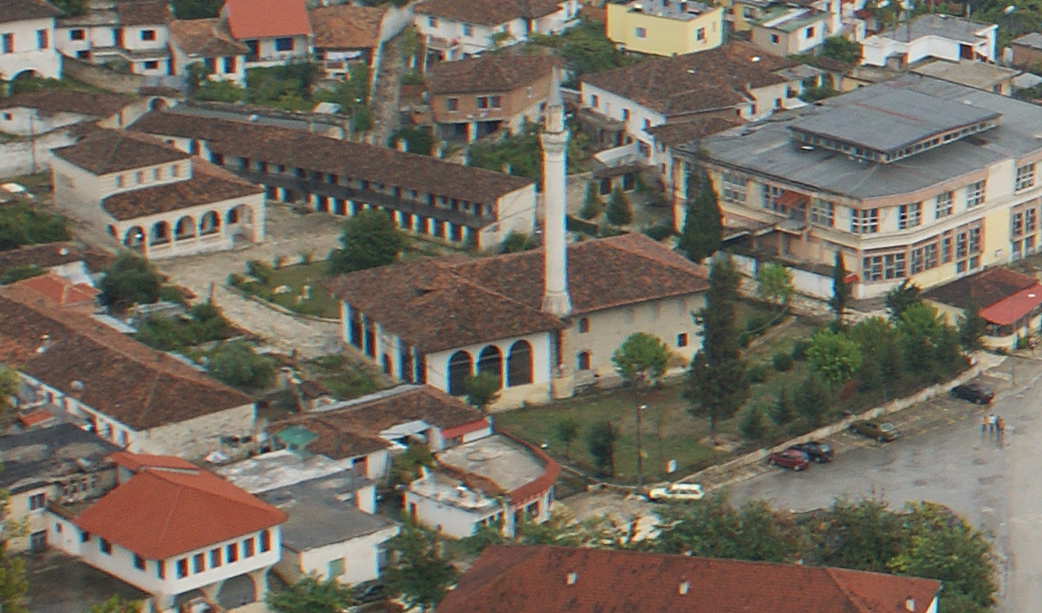 King Mosque, Kahnqa (Teqeja e Helvetive) and Han in Berat, Albania